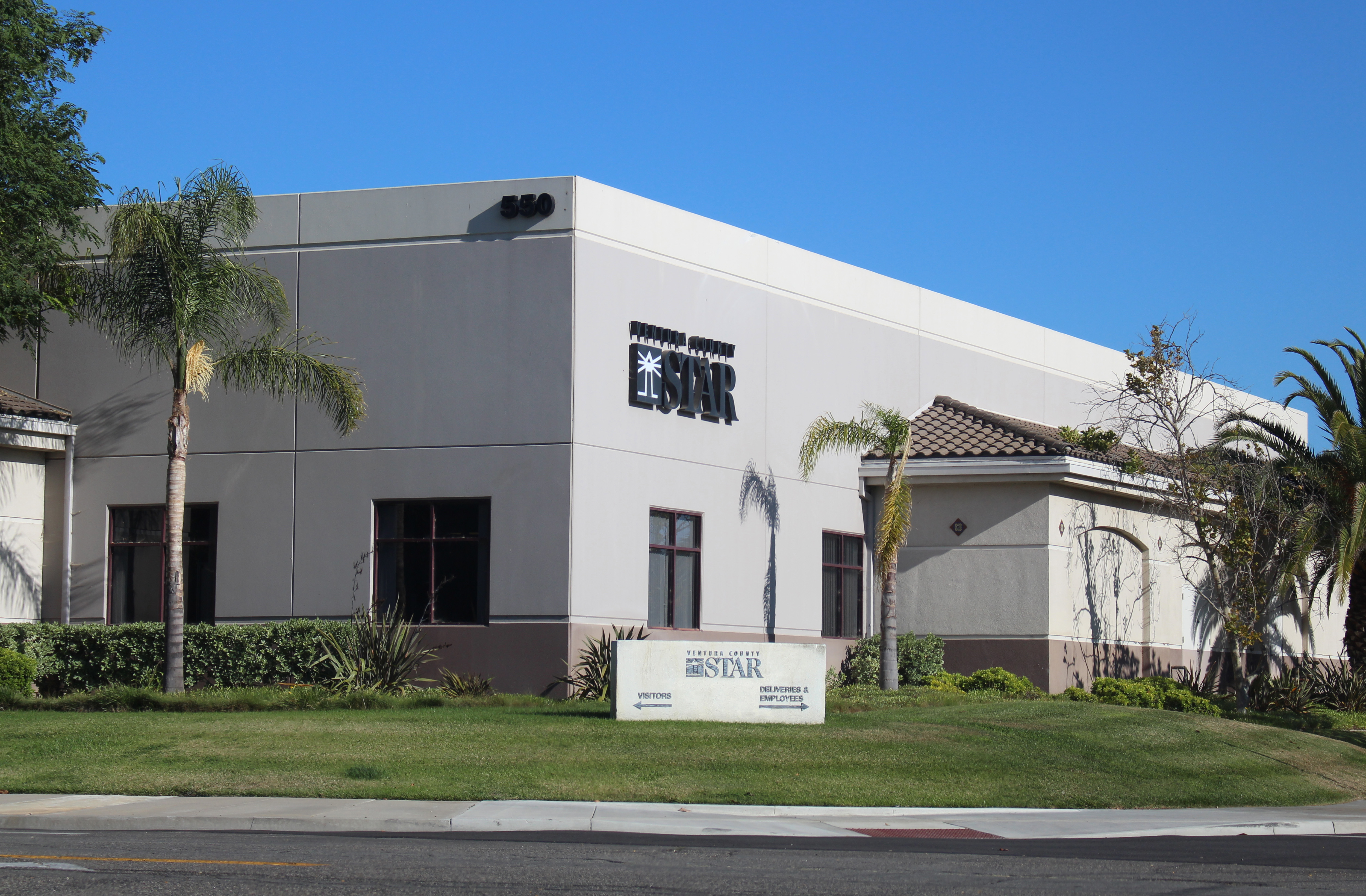 The headquarters of the Ventura County Star in Camarillo, California. Photographed on July 4, 2016 by user Coolcaesar.